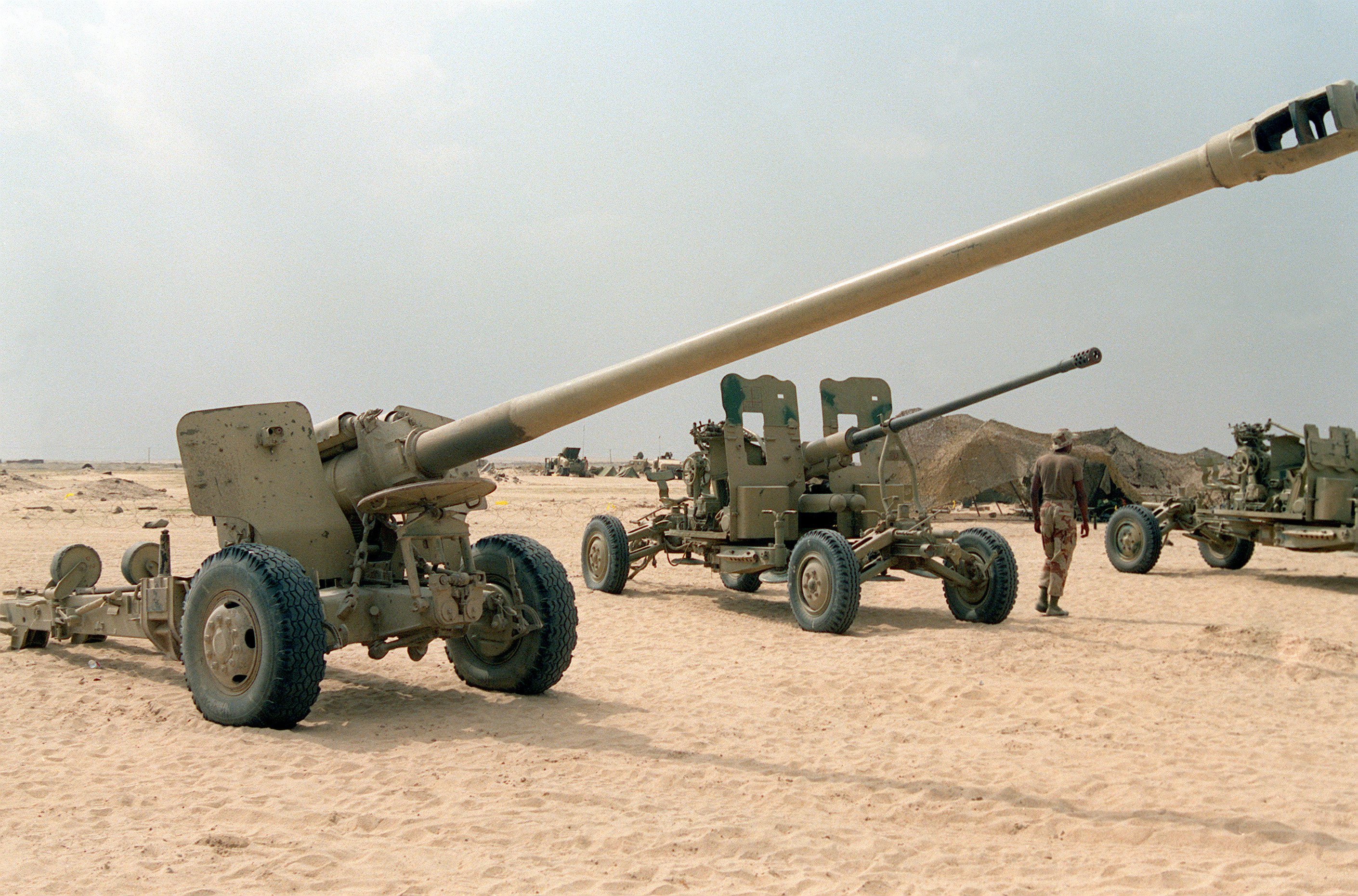 A left front view of a Type 59-1 130 mm field gun (recalibered Soviet D-74 122 mm corps gun), and an Iraqi S-60 57mm automatic anti-aircraft gun that were captured from Iraqi forces during Operation Desert Storm.